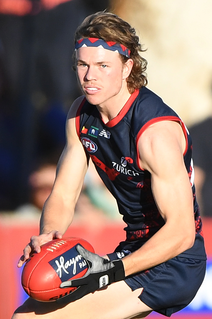 Jayden Hunt of Melbourne during the 2019 AFL round 18 match between Melbourne and West Coast at Traeger Park on Sunday, 21 July 2019 in Alice Springs, Northern Territory.